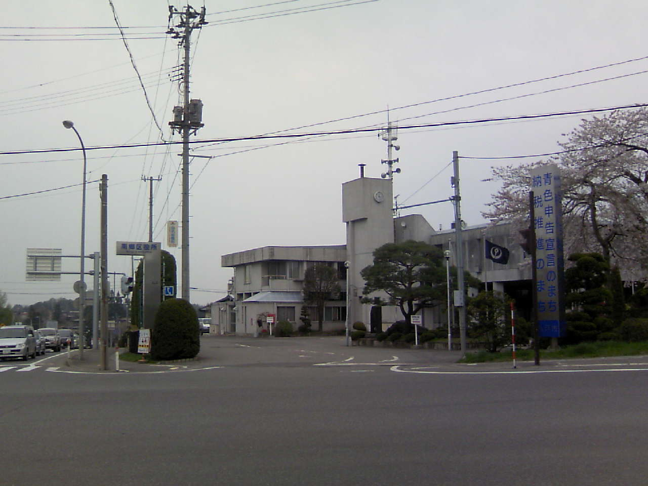 青森県八戸市南郷区役所・全景 (Nangou Ward Office - NANGO, HACHINOHE, AOMORI, JAPAN)